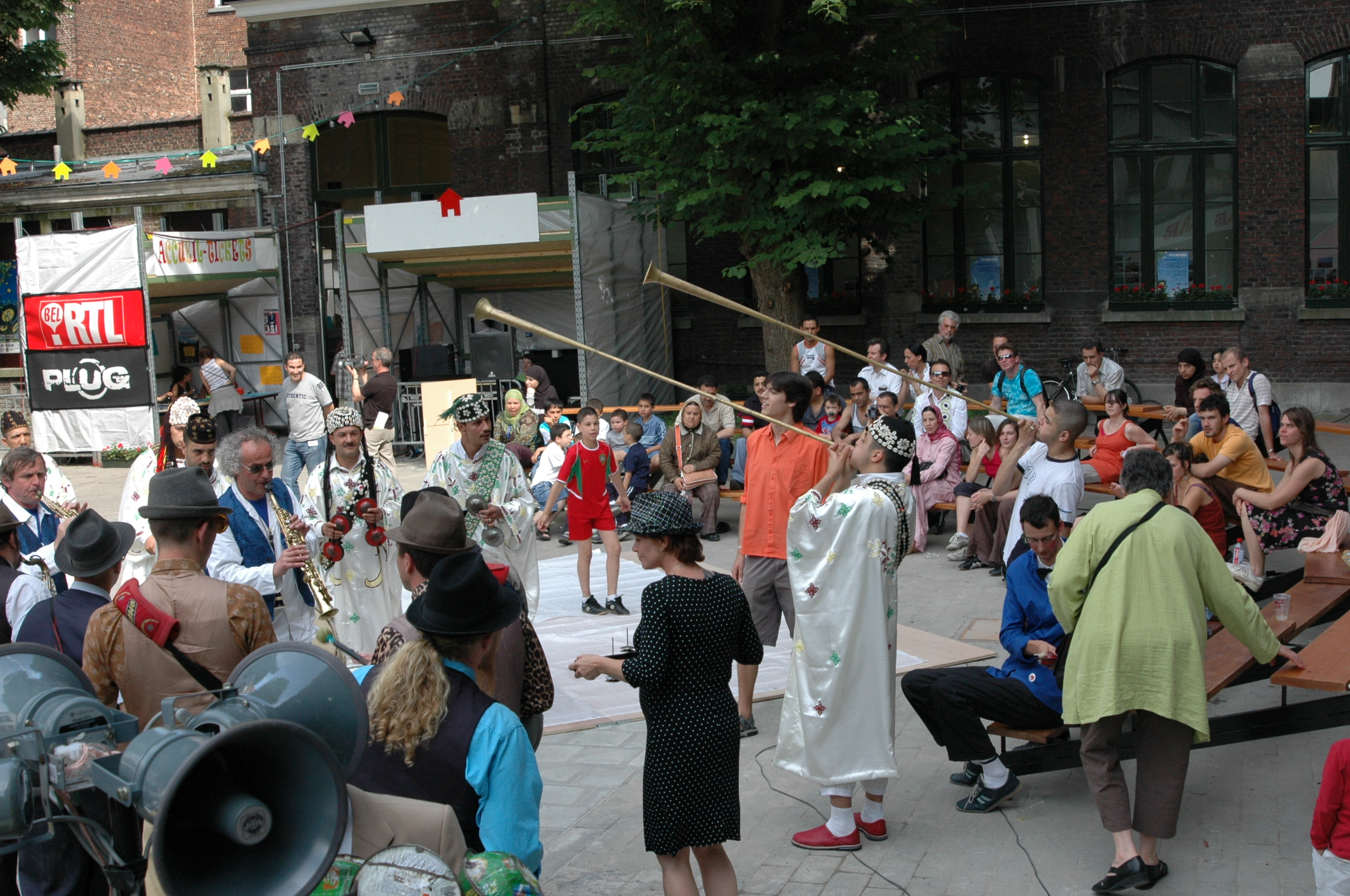 A traditional music band from Morocco presents a show in a street somewhere in Belgium during the Fête de la Musique 2006.